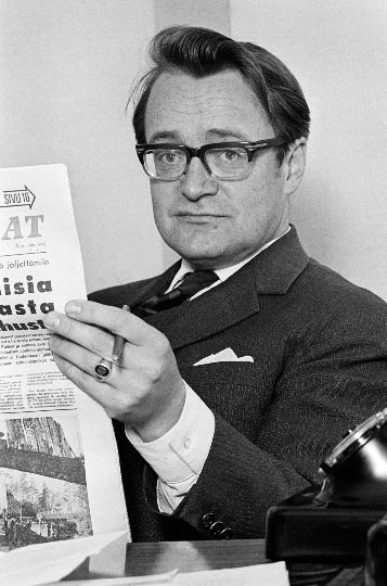 Photograph of the Finnish journalist, writer and manager Erkki Raatikainen (1930–2011).